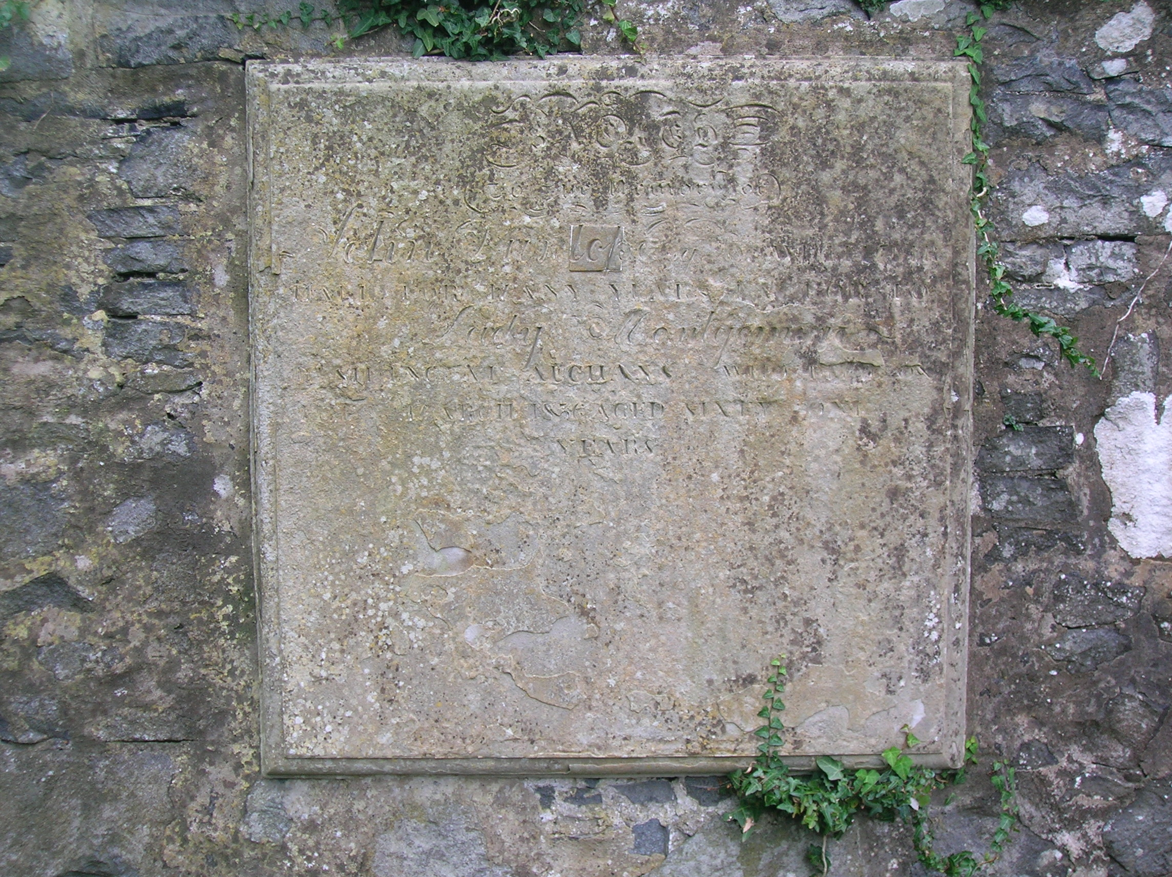 James Hunter Esq - Factor to Susanna Montgomery, Countess of Eglinton. Buried in the Auchans burial ground at Dundonald Parish Church.